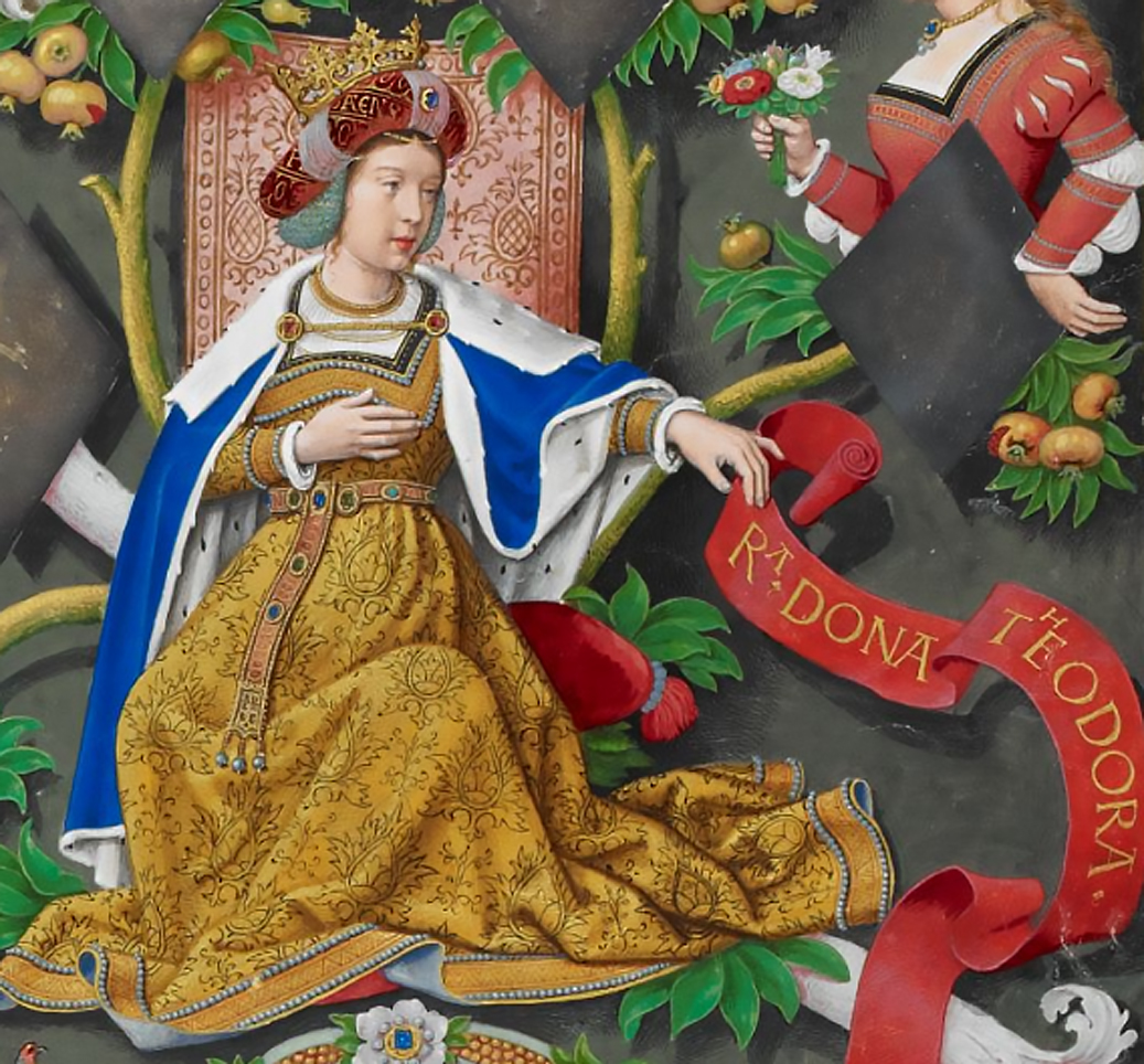 Toda Aznares (called here as Theodora), queen and regent of Navarre